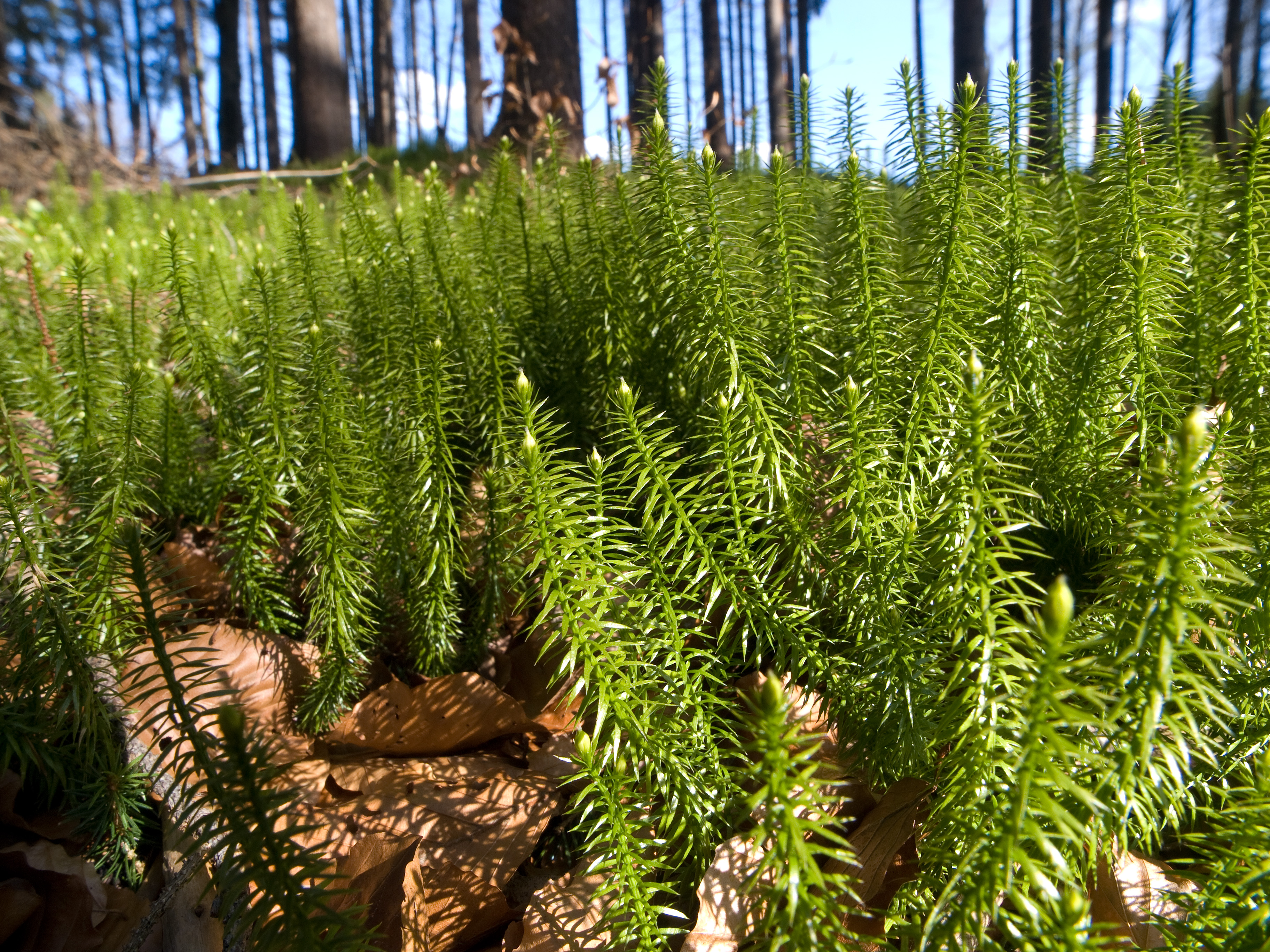 Sprossender Bärlapp Lycopodium annotinum Picture taken in Bavaria